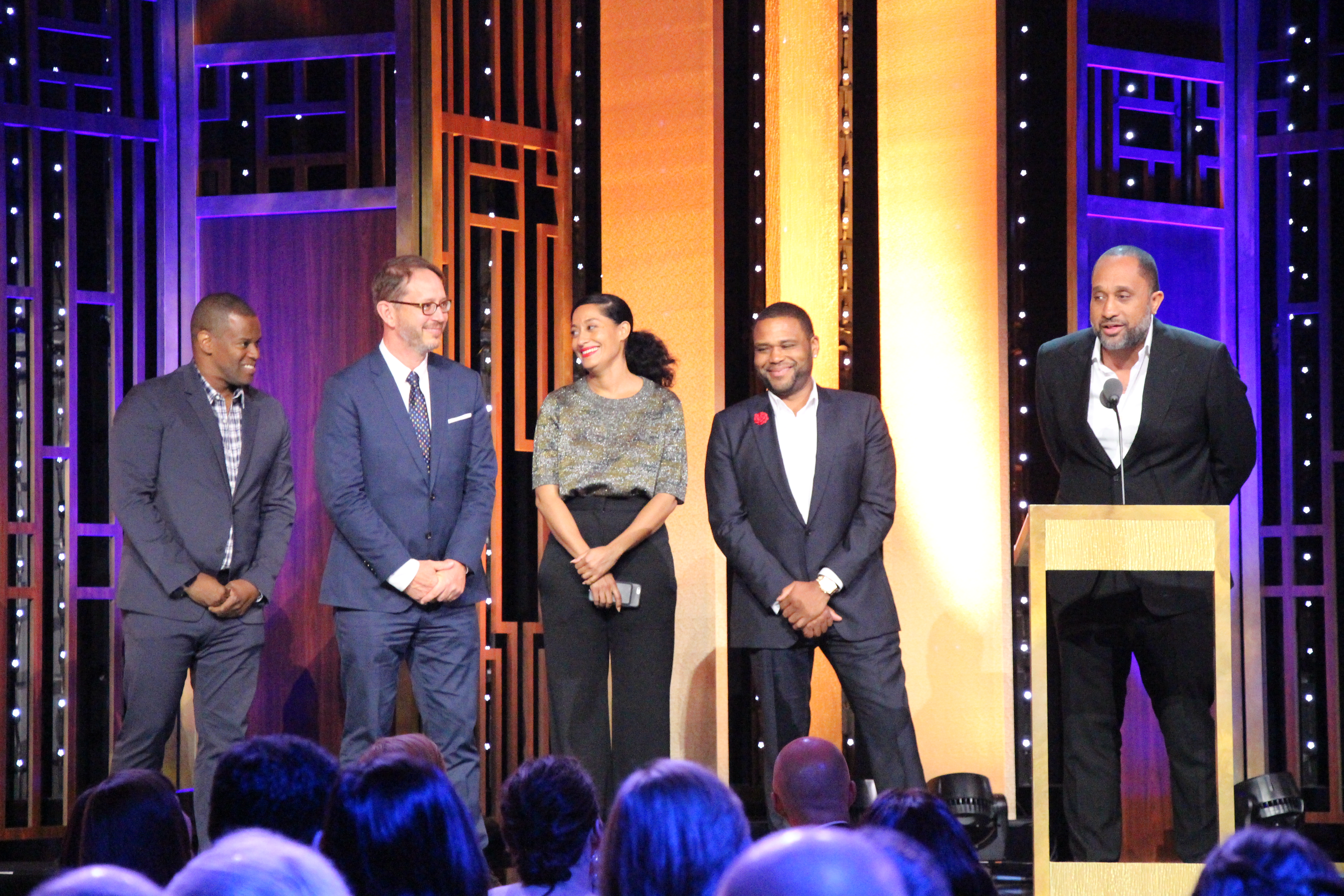 This photo includes Executive Producer/Showrunner Jonathan Groff, Actors Anthony Anderson and Tracee Ellis Ross, and Series Creator/ Executive Producer Kenya Barris. (Photo/Sarah E. Freeman/Grady College, in New York City, Georgia, on Saturday, May 21, 2016)